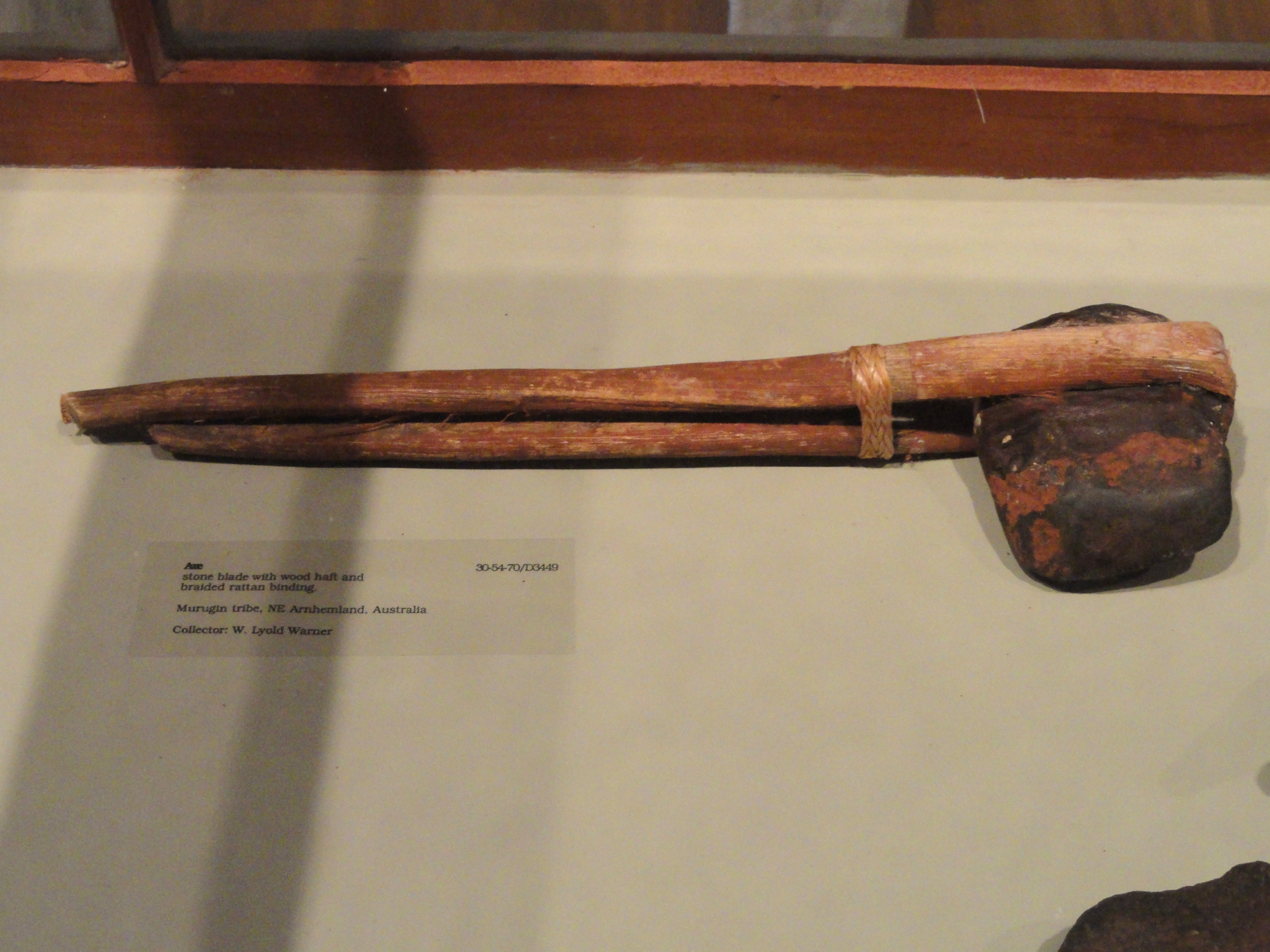 Axe, Murugin tribe, NE Arnhemland, Australia. Exhibit from the Pacific Collection, Peabody Museum, Harvard University, Cambridge, Massachusetts, USA. Photography was permitted without restriction; exhibit is old enough so that it is in the public domain.